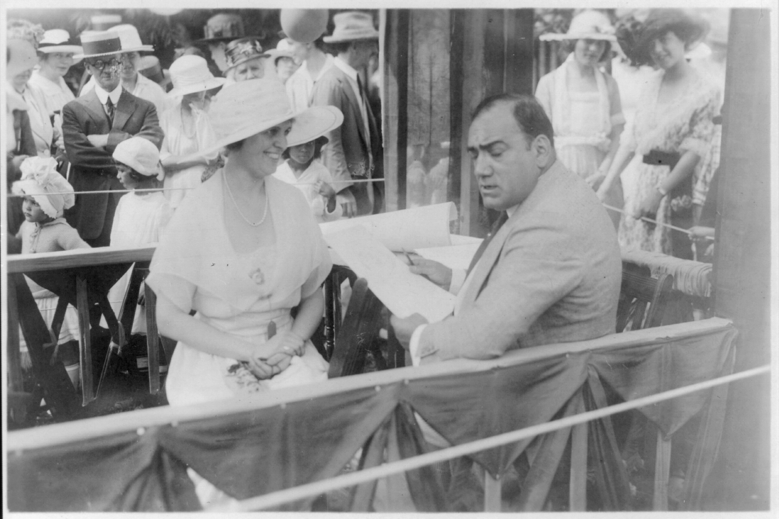 Enrico Caruso, 1873-1921, drawing caricature sketches in booth at charity fair in Southampton, L.I., with sitter, Mrs. Albert Gallatin